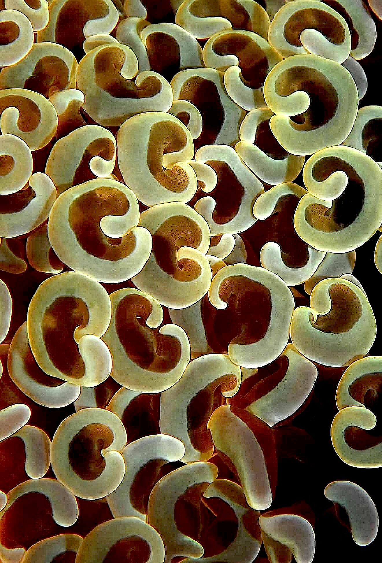 hammer coral